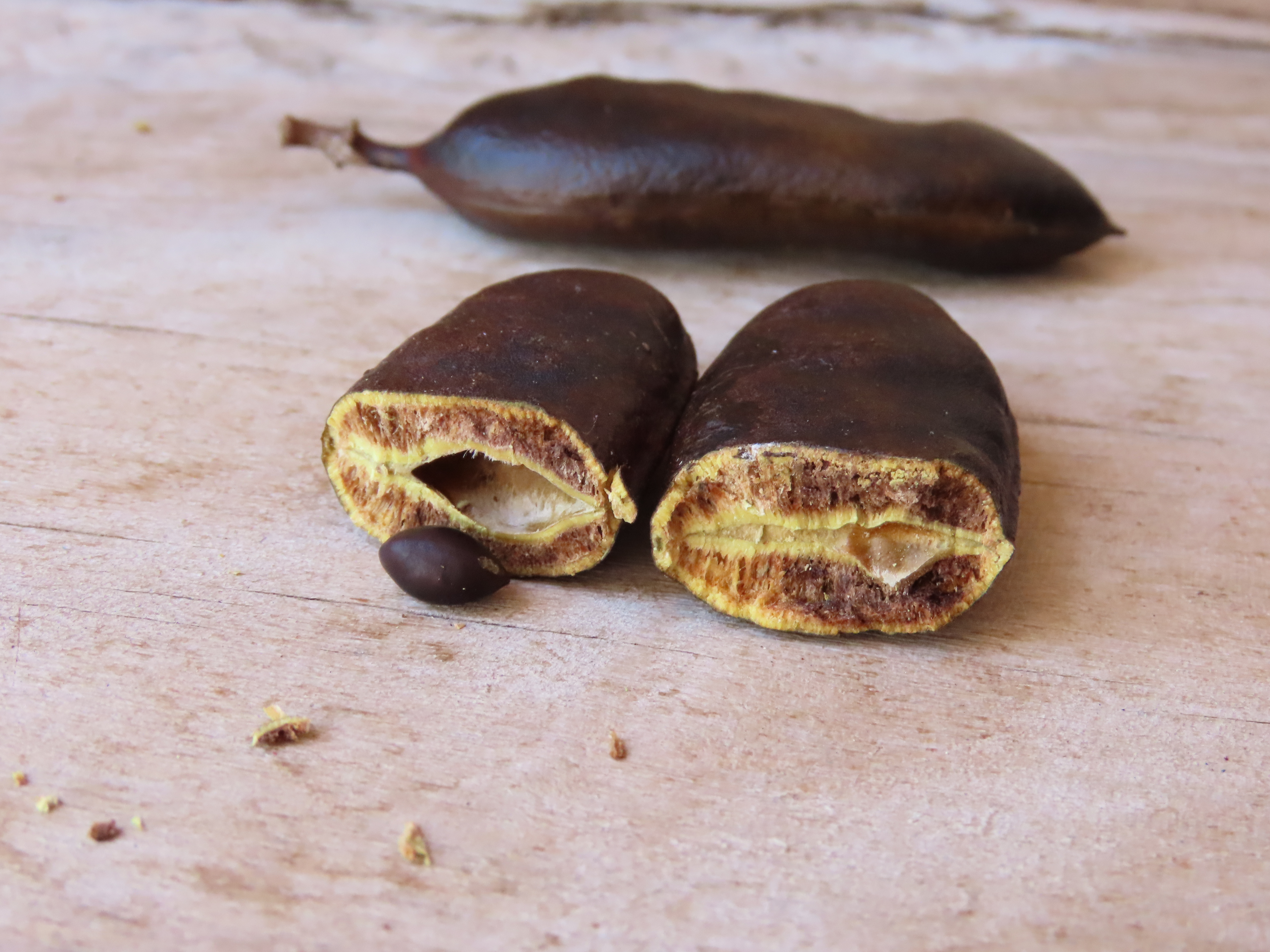 Unlike the pods of most leguminous trees, but like some Senegalia species, Libidibia ferrea pods are indehiscent, and dissemination depends on dropped pods being eaten by suitable large ungulates for having the seeds released and spread, usually in their manure. The pod is hard and it took a sharp knife and considerable force to open this pod and release a seed.